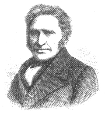 Ludwig Reichenbach (1793-1879), German botanist and zoologist